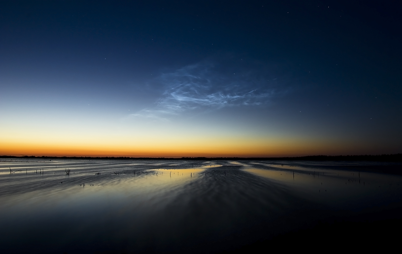 Noctilucent clouds over Bargerveen, Drenthe, Netherlands